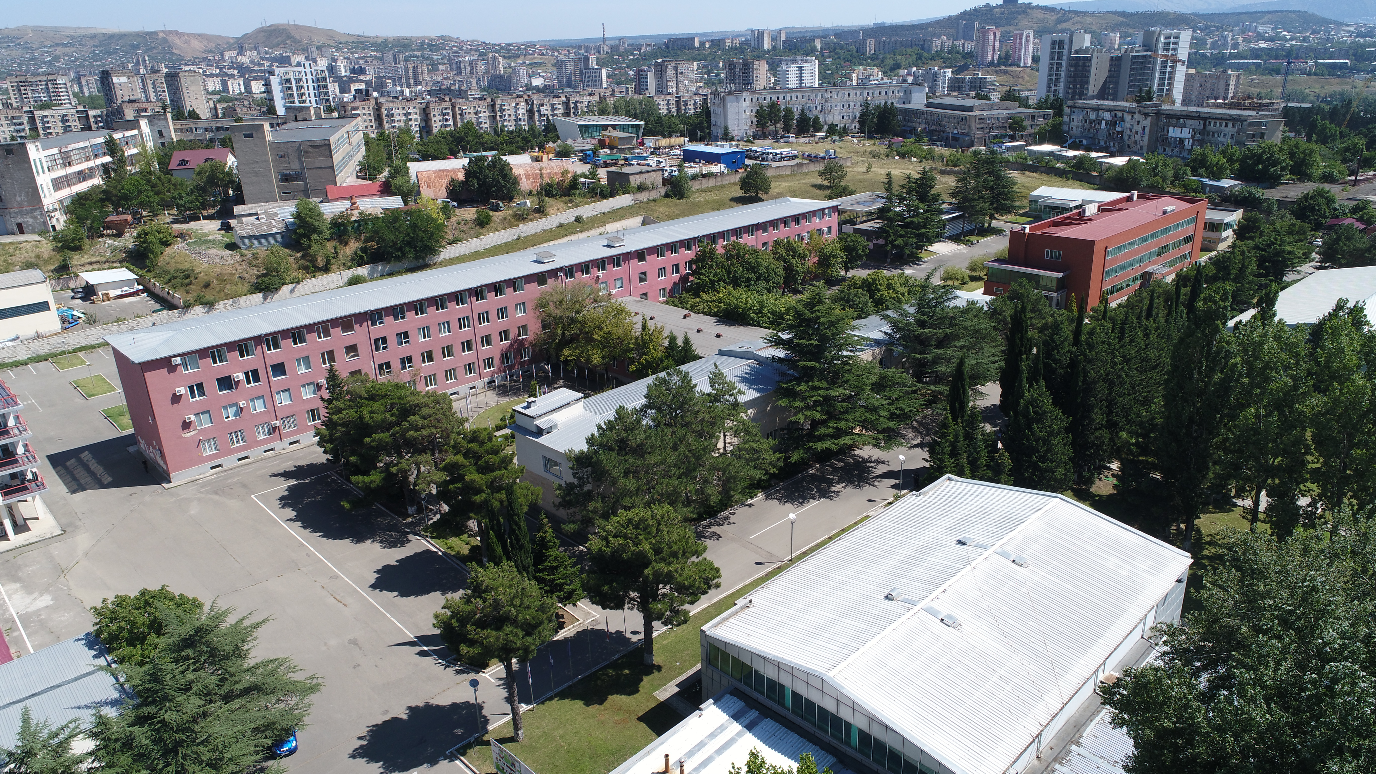 Building of the Academy of the Ministry of internal affairs of Georgia